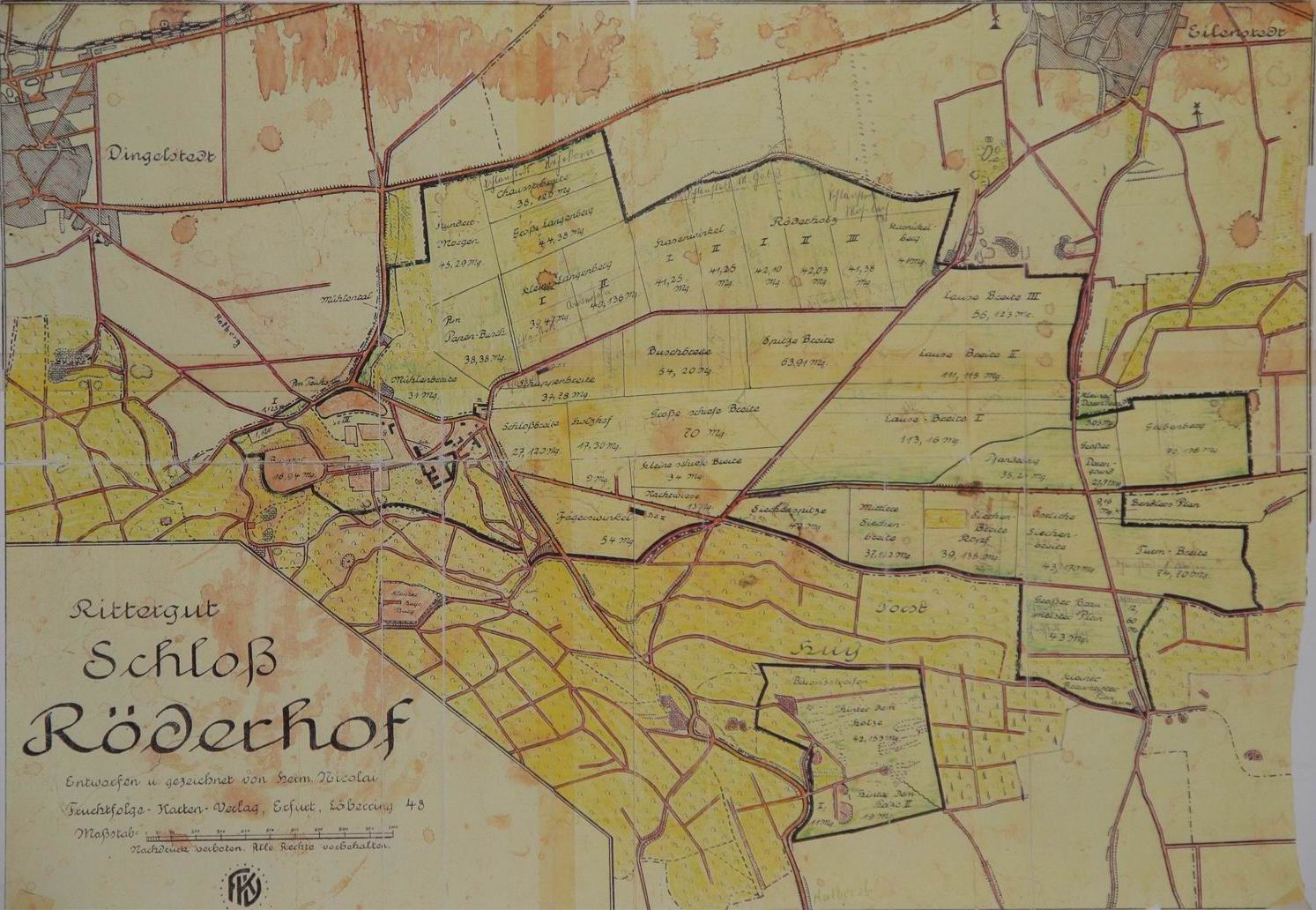 Rittergut Schloß Röderhof 1838